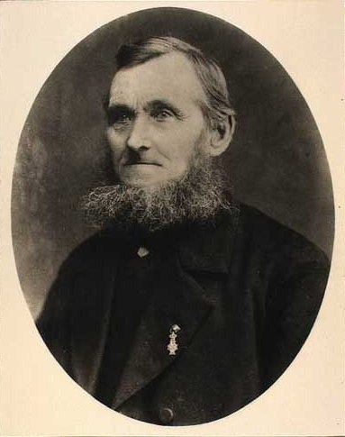 Danish farmer, politician, MP Jens Jensen (1812-1906)